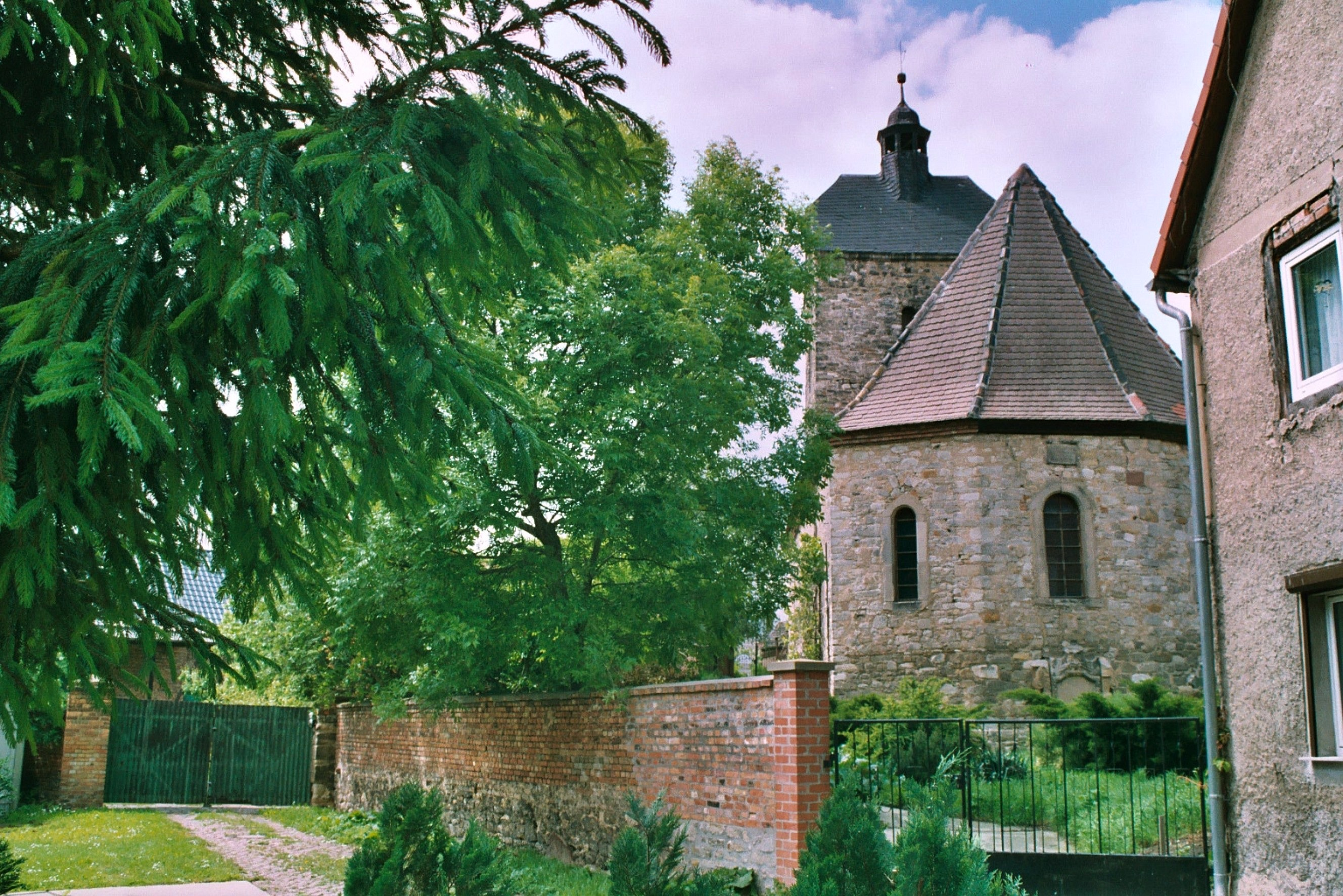 Angersdorf (Teutschenthal), the village church